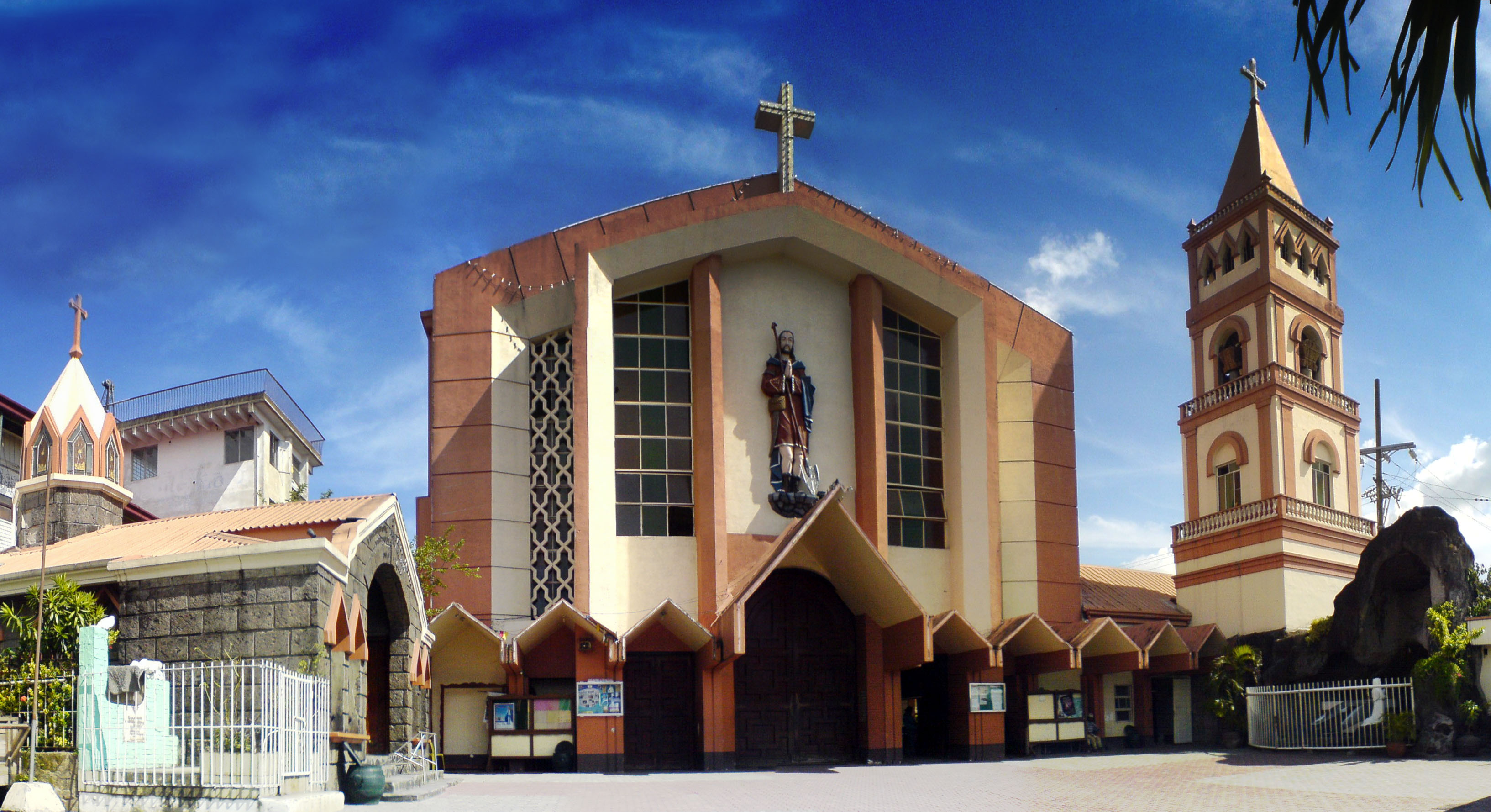 Church of San Isidro Labrador in Binan City. Picture taken in 7/15/2010.